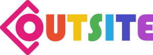 Logo of the LGBT youth organisation Outsite, which is part of DWH, the LGBT organisation in the city of Delft in the Netherlands